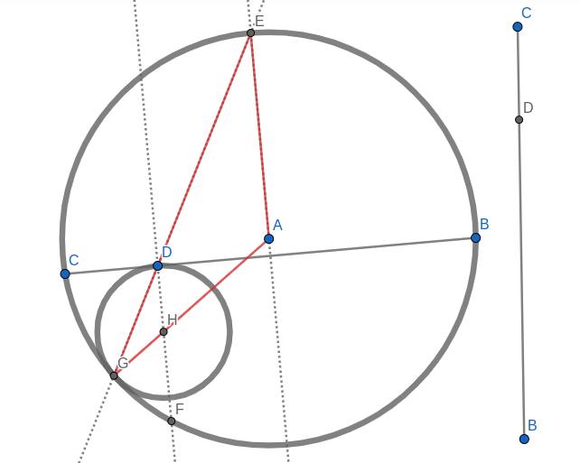 Euclidean construction of a circle inscribed a circular segment, given a distance CD for the point at which the inner circle is tangent to both: the line creating the circular segment and the bigger circle.